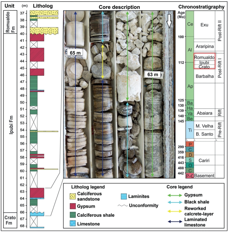 Lithologic and core log of the Ipubi Formation, Santana Group, Araripe Basin, NE Brazil